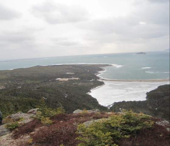 The abandoned community of Swells Cove, Newfoundland and Labrador, Canada in the foreground taken from a vantage point atop Swells Cove Hill.